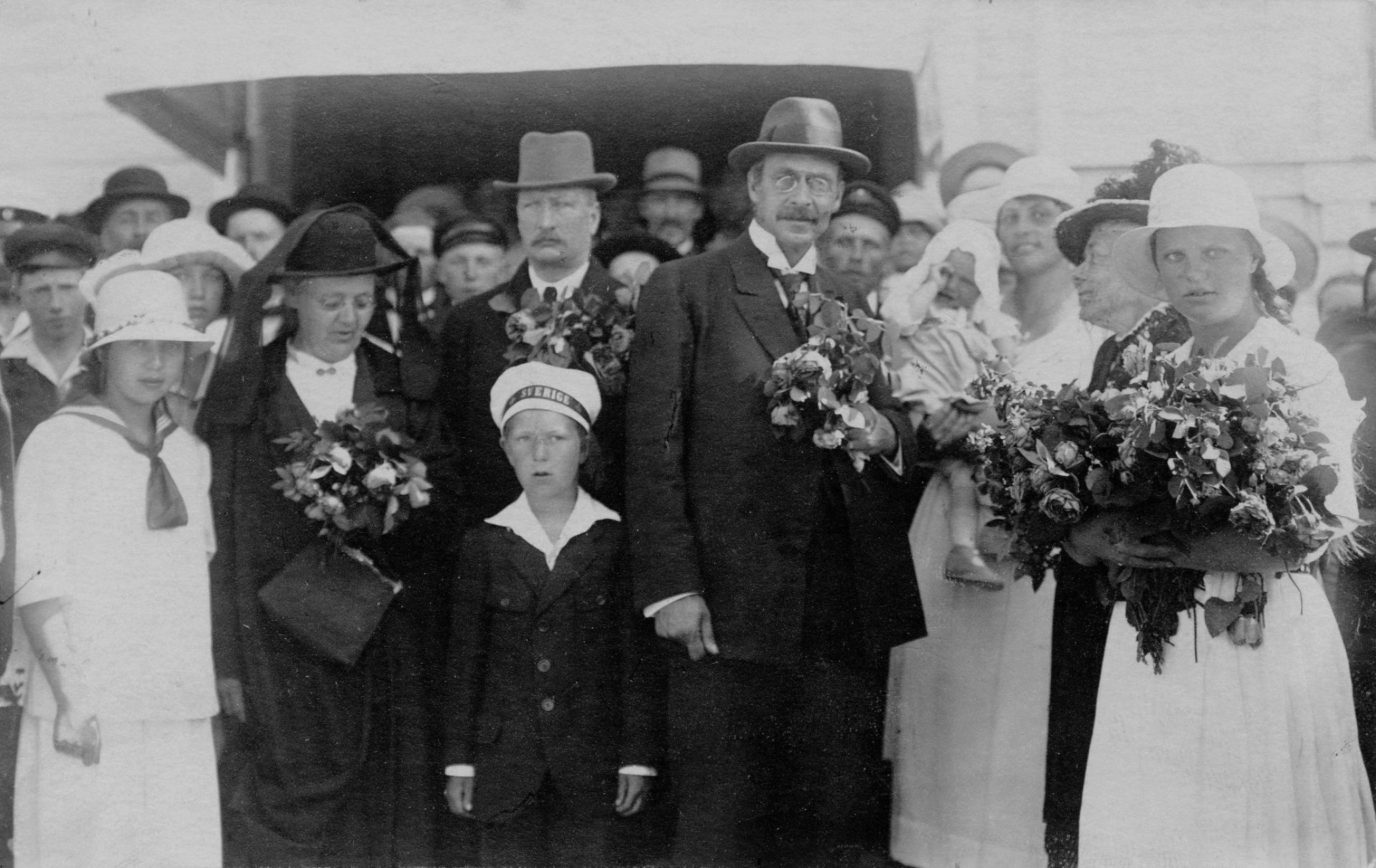 The Åland politicians Julius Sundblom (1865–1945) and Carl Björkman (1873–1948) are greeted in Mariehamn after they were released from a prison in Turku, Finland.